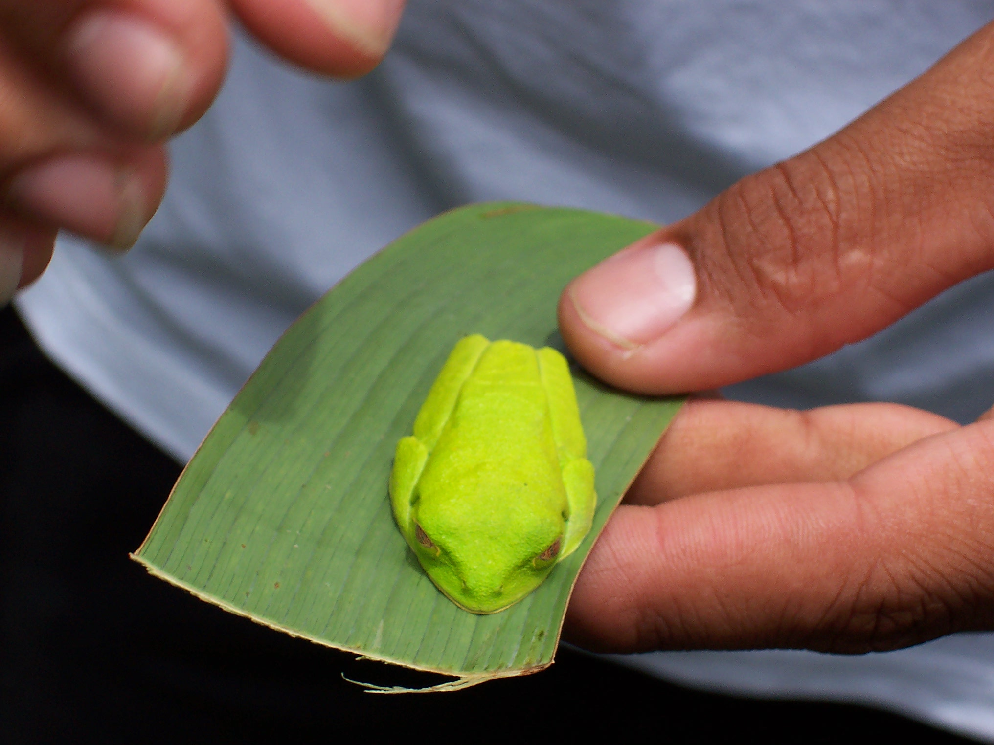 Red eyed tree frog from Costa Rica 2004.